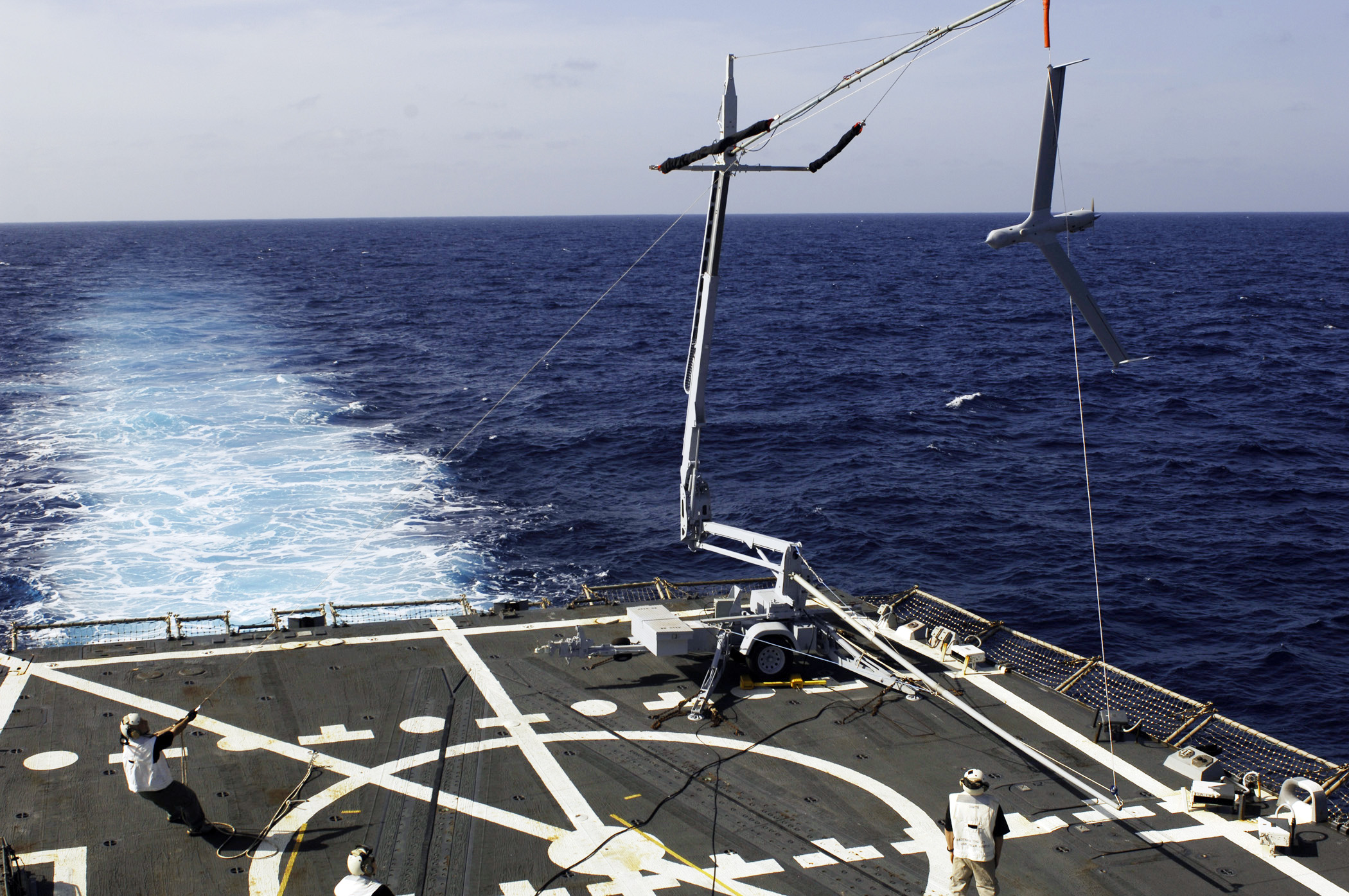 ATLANTIC OCEAN (Nov. 14, 2007) The ScanEagle unmanned aerial vehicle is recovered from flight aboard the guided-missile destroyer USS Oscar Austin (DDG 79). Oscar Austin is en route to the Central Command area of responsibility to support maritime security operations in the region as part of the Harry S. Truman Carrier Strike Group. U.S. Navy photo by